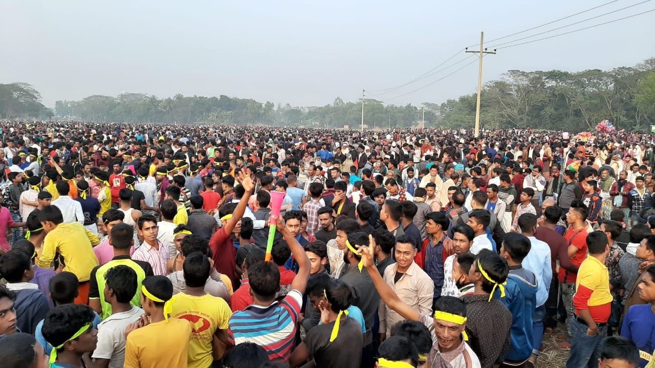 Crowds in Humguti, 2020, a 250 years old traditional sports.